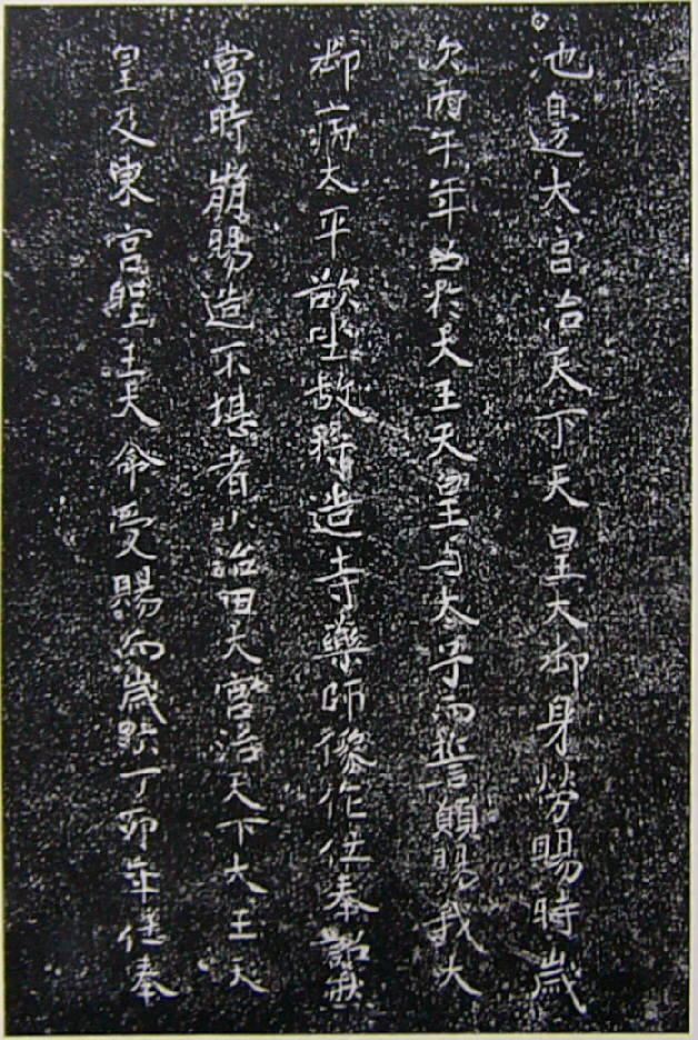 Inscription on the halo of the statue of Bhaisajyaguru in Hōryū-ji Temple. about 27cm height, 12cm wide